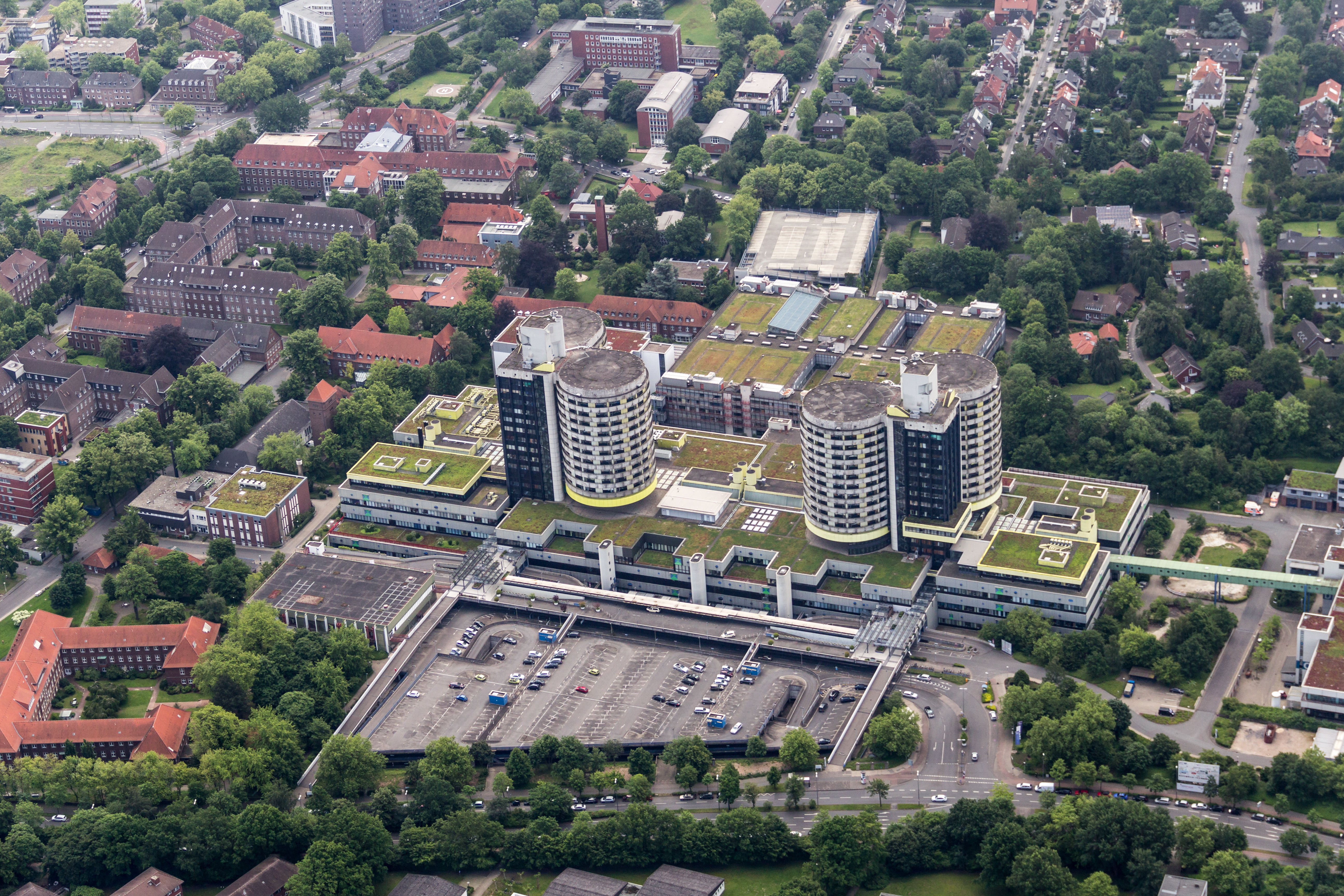 University Hospital, Münster, North Rhine-Westphalia, Germany